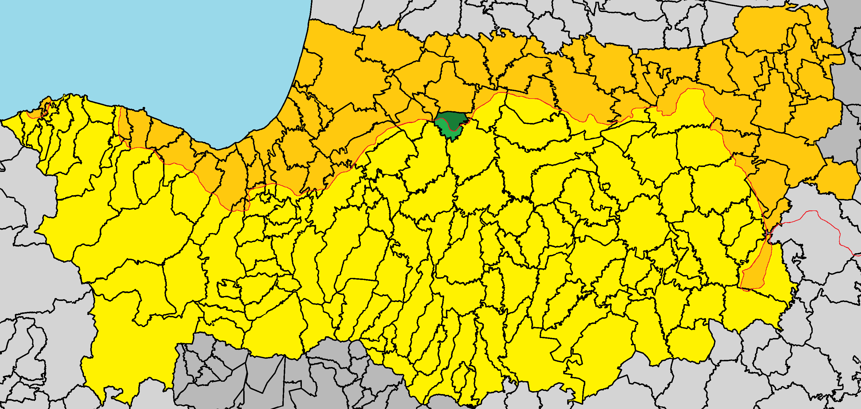 Avlona in Nicosia District (de jure).